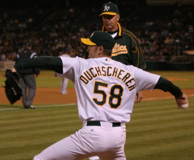 Photo by Justin Lafferty 16:52, 23 August 2006 . . Jlaff . . 650×537 (39 KB)